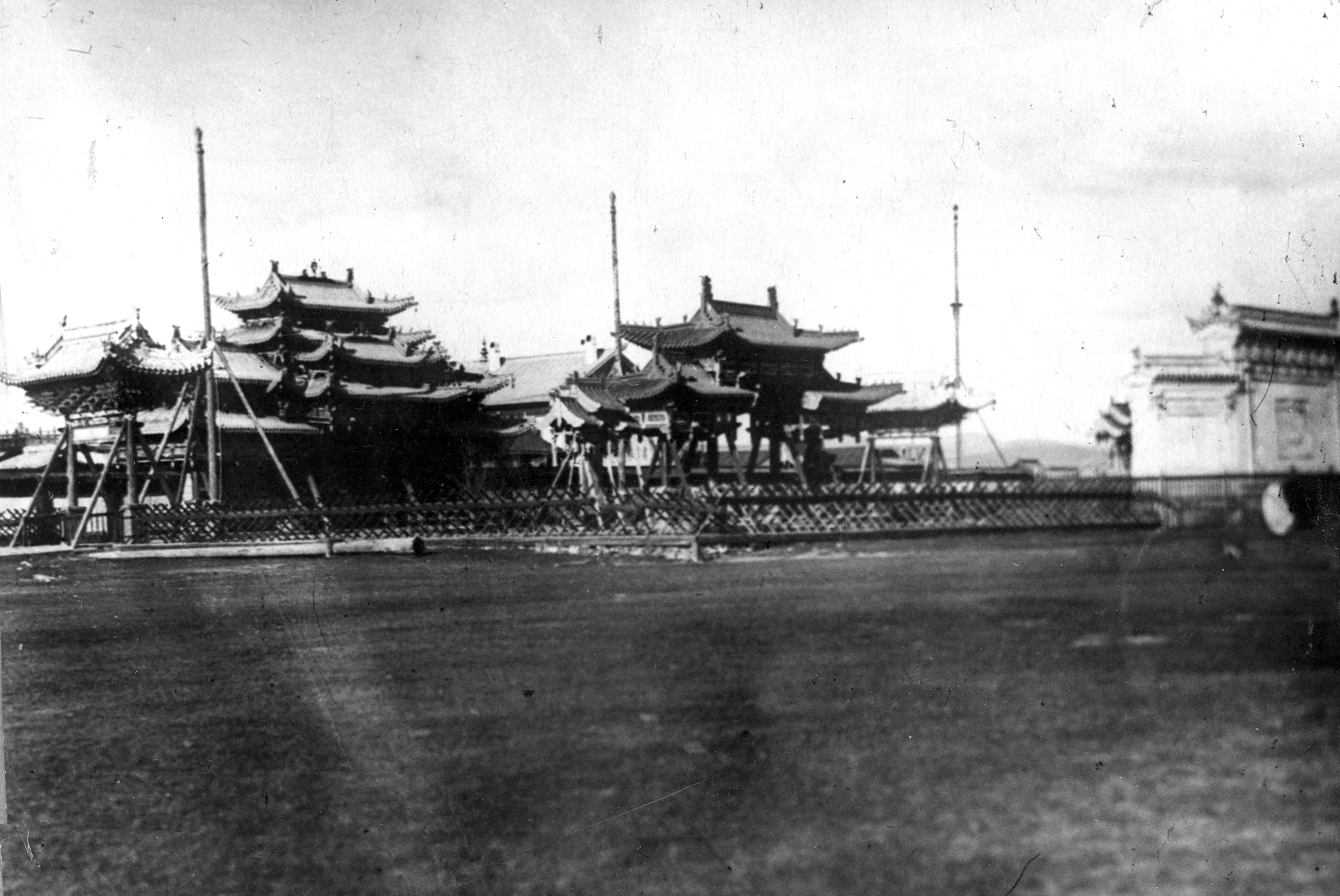 Bogdo's green palace. 1920s.